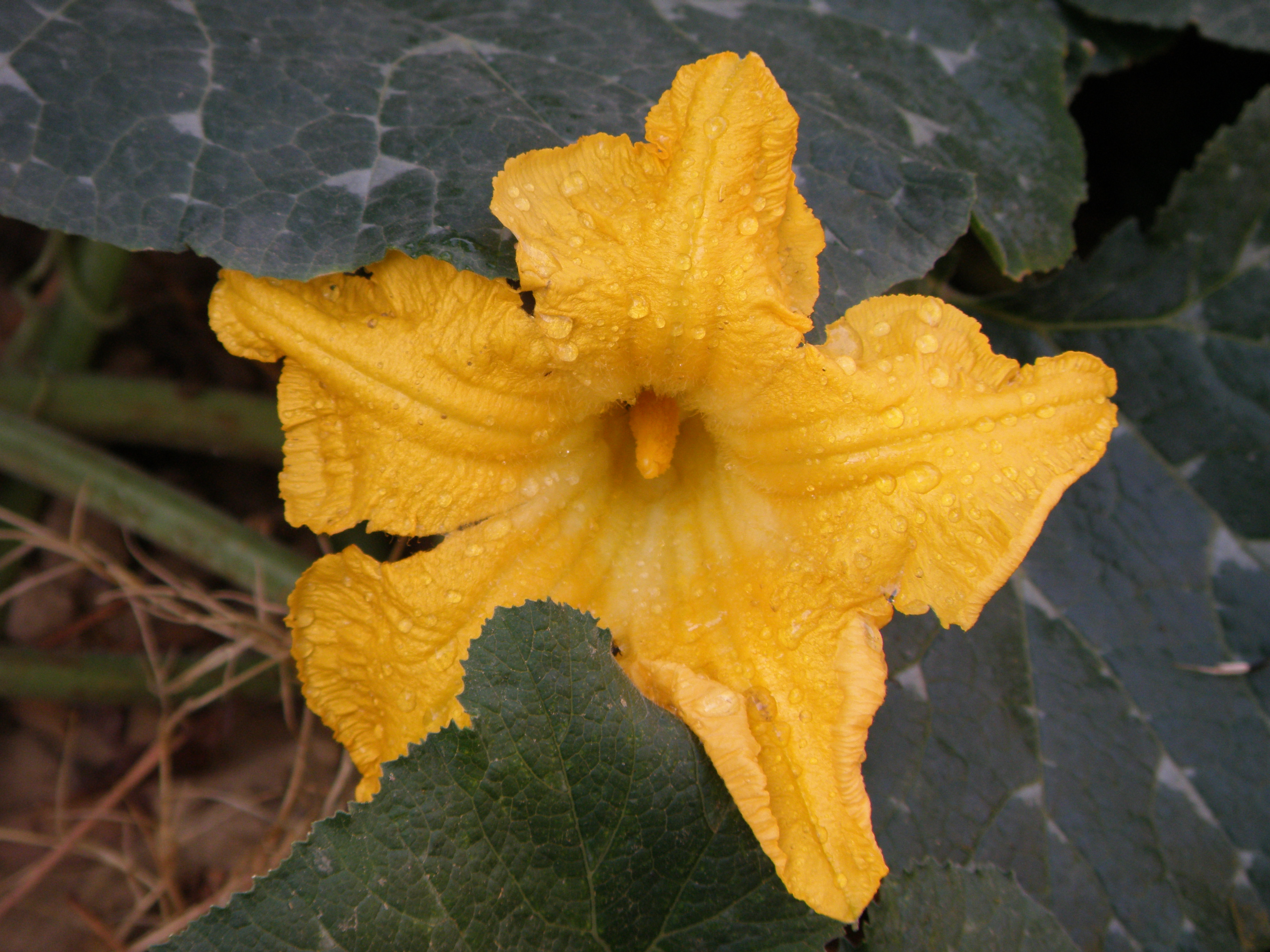 A Pumpkin flower attached to the vine. සිංහල: වට්ටක්කා මලක්